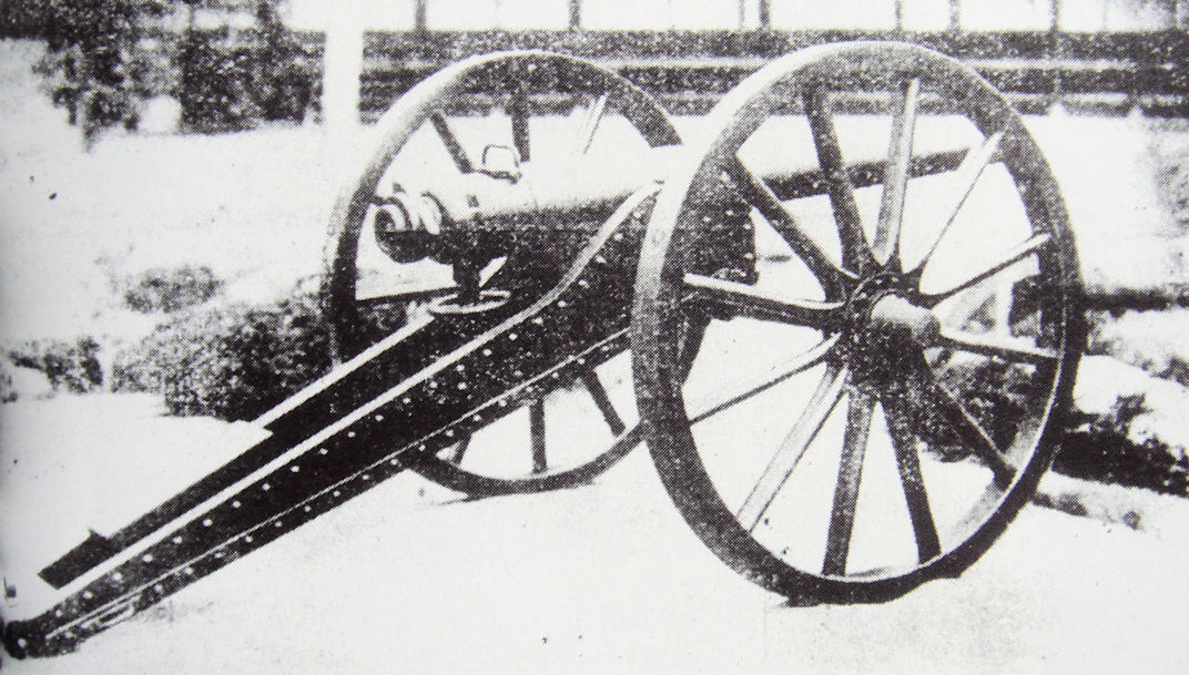 Sagahan_Armstrong_gun_used_at_the_Battle_of_Ueno_against_the_Shogitai_1868